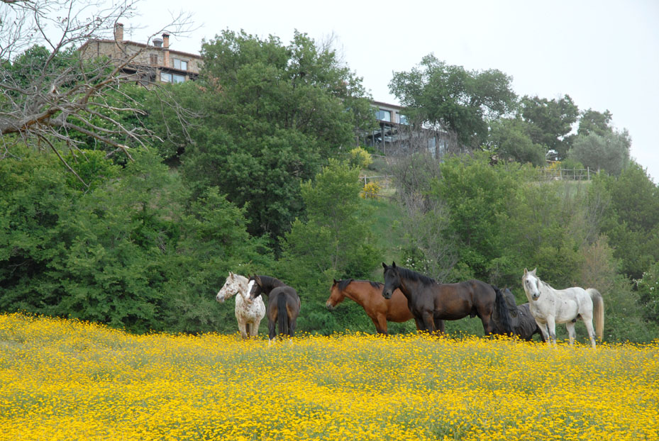 Horses in Maremma, Tuscany